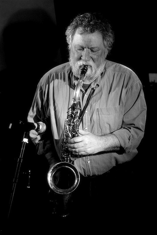 British saxophonist Evan Parker performing live at Spicejazz, London